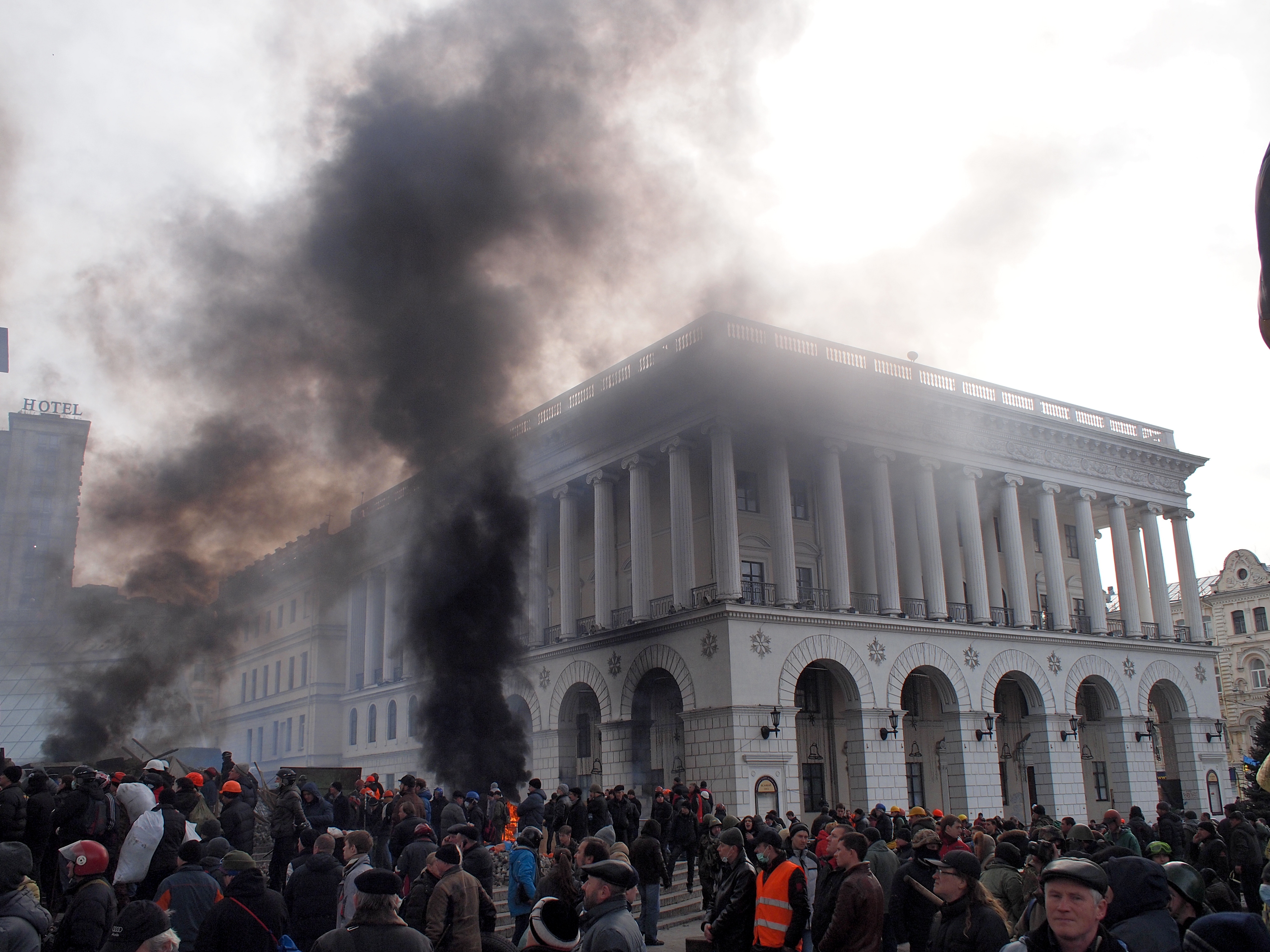 Euromaidan in Kiev, 19 February 2014. Protesters are burning tires near Kiev Conservatory.